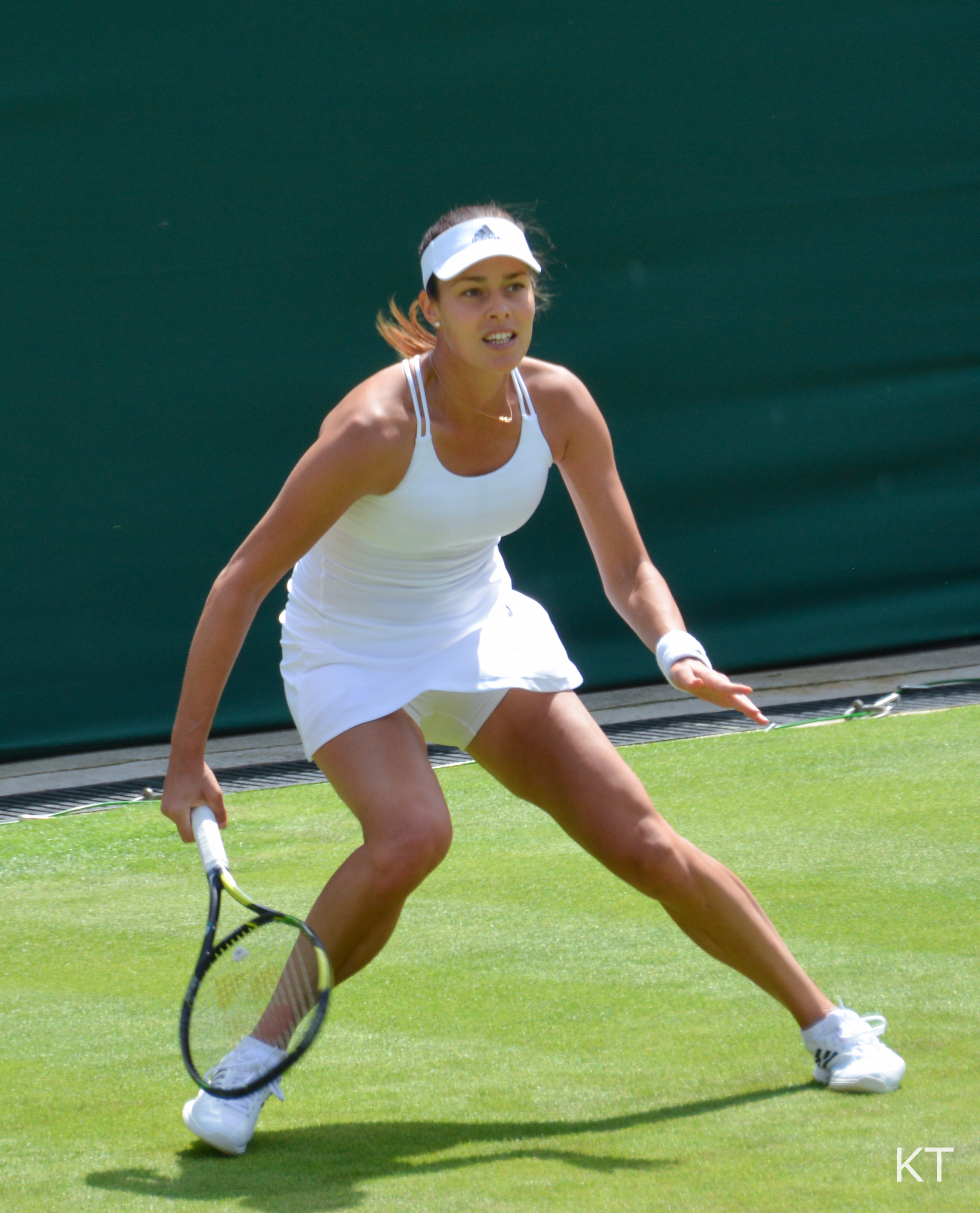 Day 1 of Wimbledon 2015.